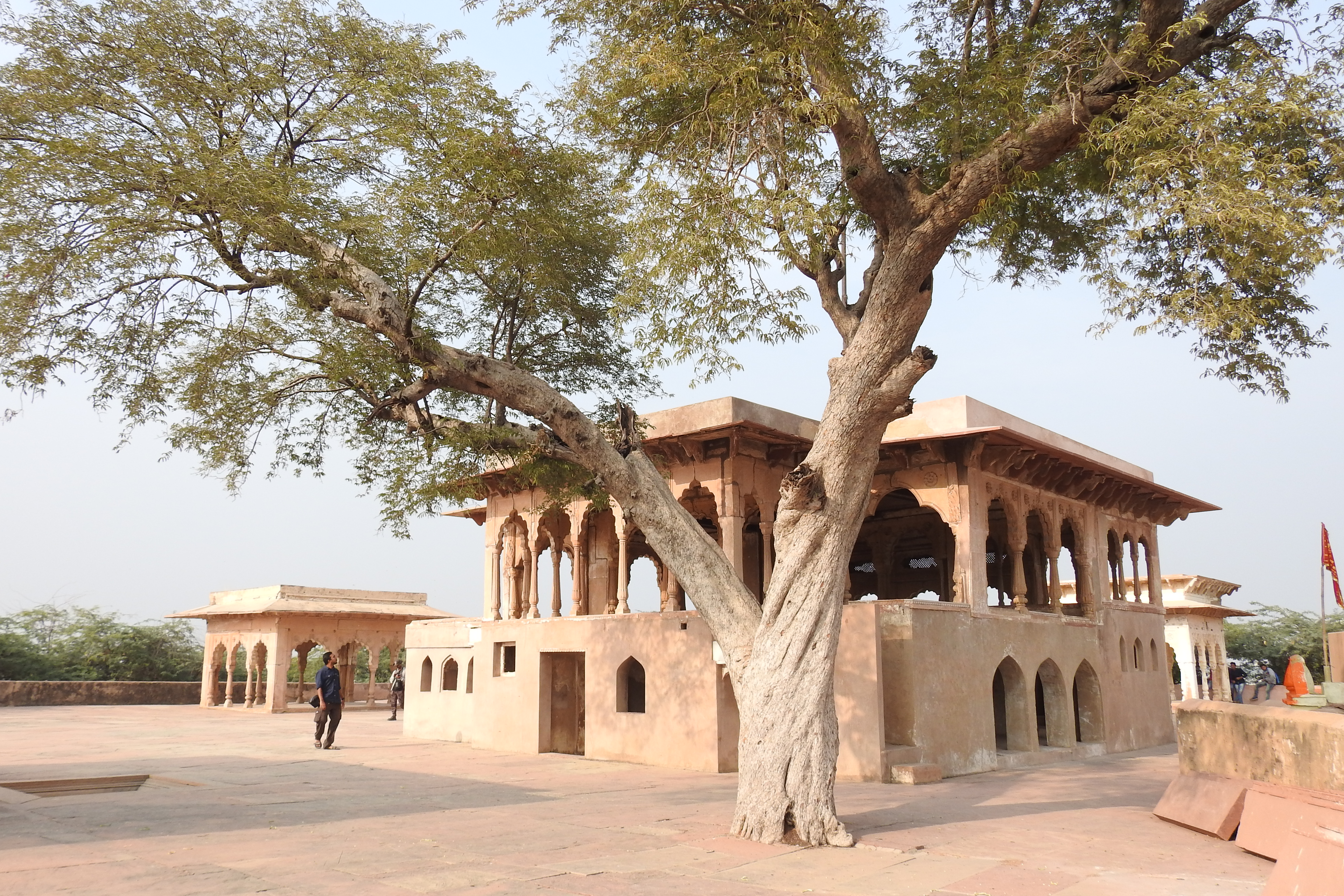 Lohagarh Fort Bharatpur, Rajasthan.